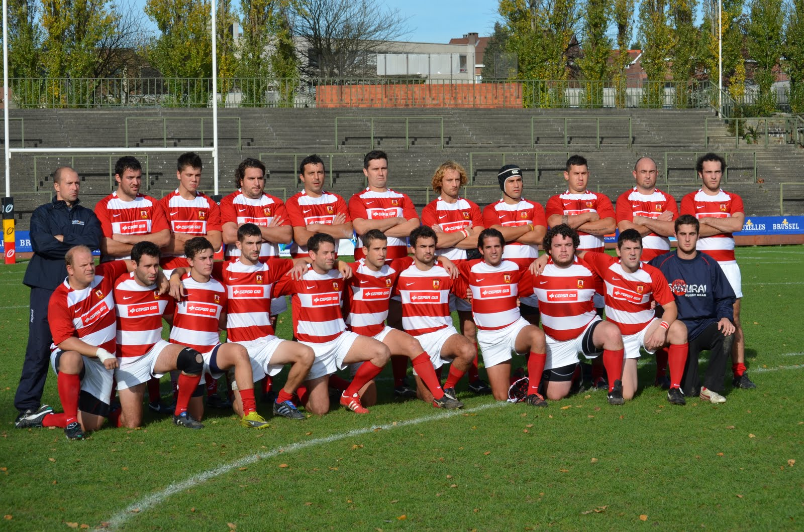 Squad that faced Belgium B in Brussels on 5th March 2012. Final score 20-8 to Belgium B. Squad: 1. Will Collins, 2. Chris Lugnani (Captain), 3. Jamie Choules, 4. Chad Thomson, 5. Alex Laverello, 6. James Russo, 7. Gary Evans, 8. Chris Lyons, 9. Freddie Cruz, 10. Mark Garcia, 11. Nick Isola, 12. Joey Garcia, 13. Hamish Coupar, 14. Mike Massey and 15. Chris Gillighan Replacements: Charles Cruz, Nick Ramage, Sixto Parody, Matt Guerero, Robert Philips, Albert Isola, Julian Leigh.